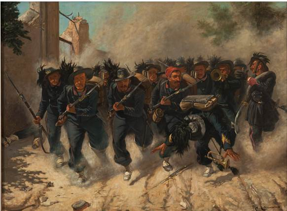 The Infantry (Bersaglieri) at Porta Pia